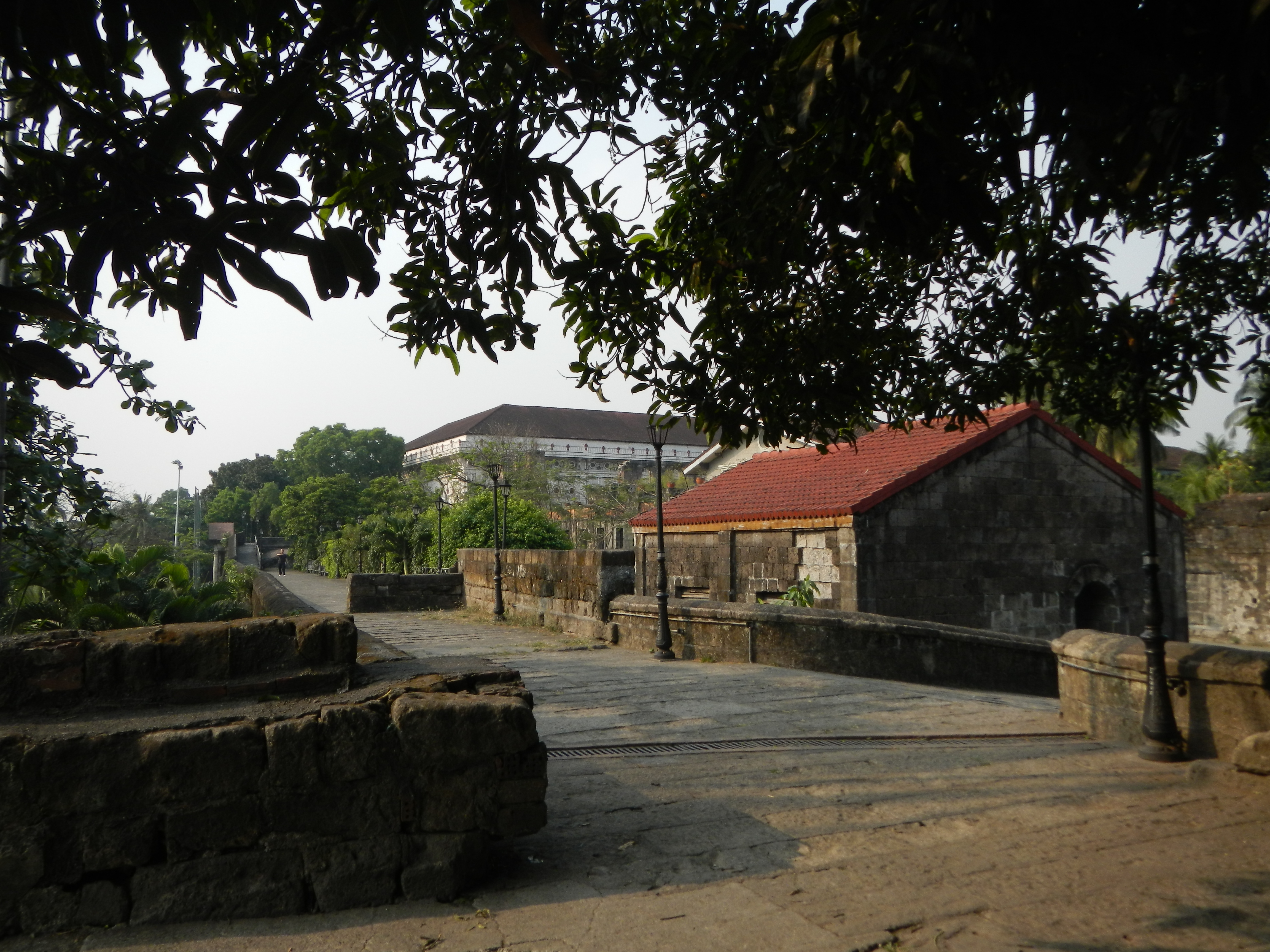 Intramuros - (Golf club, Walls, Entrance - Puerta de Santa Lucia, Cuartel de Santa Lucia, 1603, Santa Lucia Barracks, gate entrance to Walled City, favored route to Malecon Drive outside the Walls in front of the ECJ or Eduardo Cojuanco building, the former Adamson University and Ateneo Municipal or Ateneo de Manila).